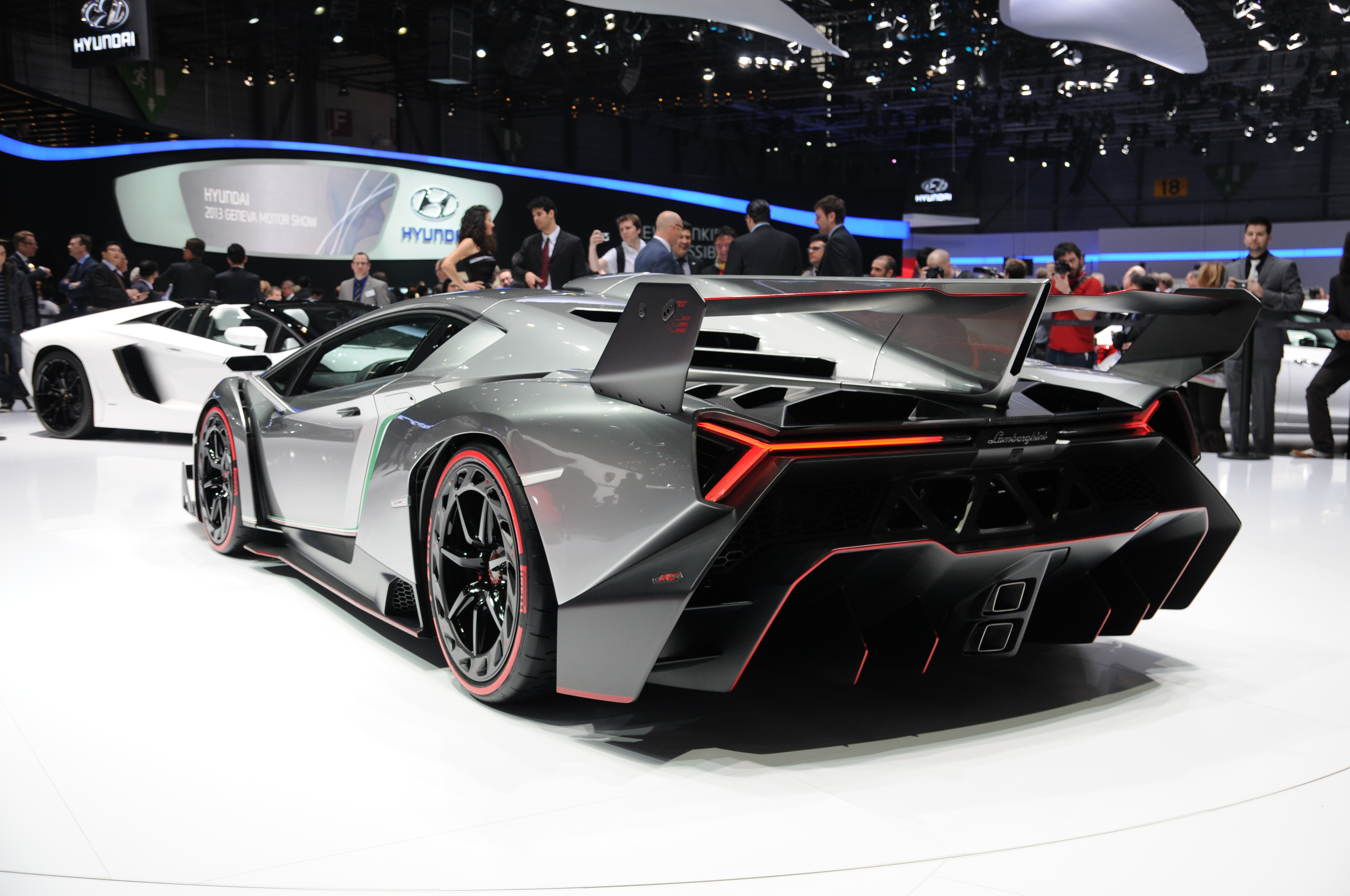 Geneva Motor Show 2013 (photos taken on the first press day)